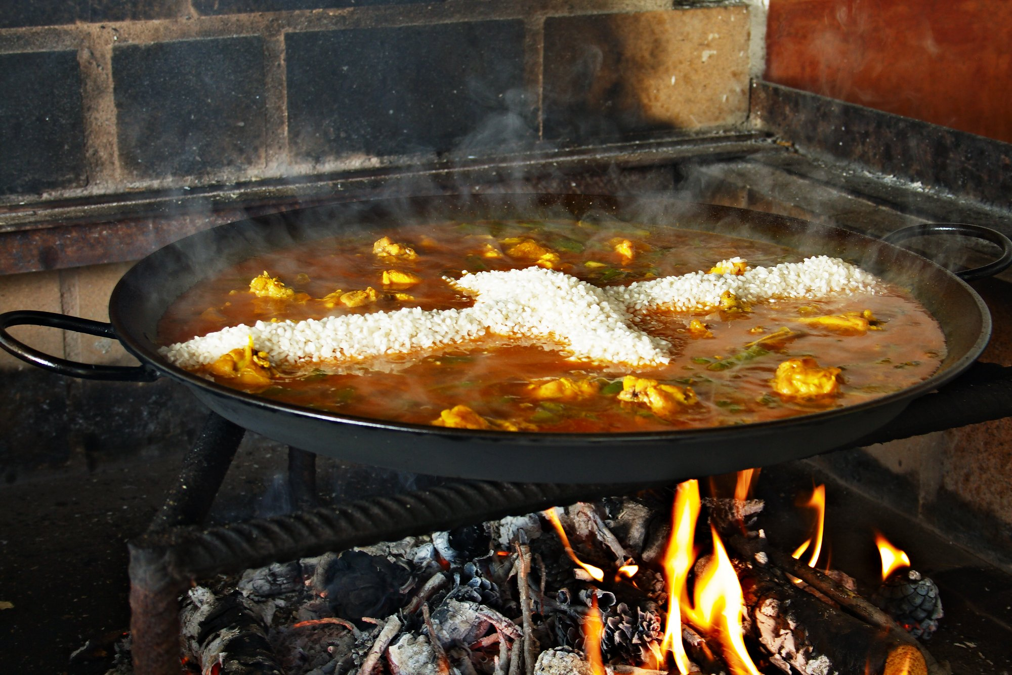 Making a Paella : adding the rice